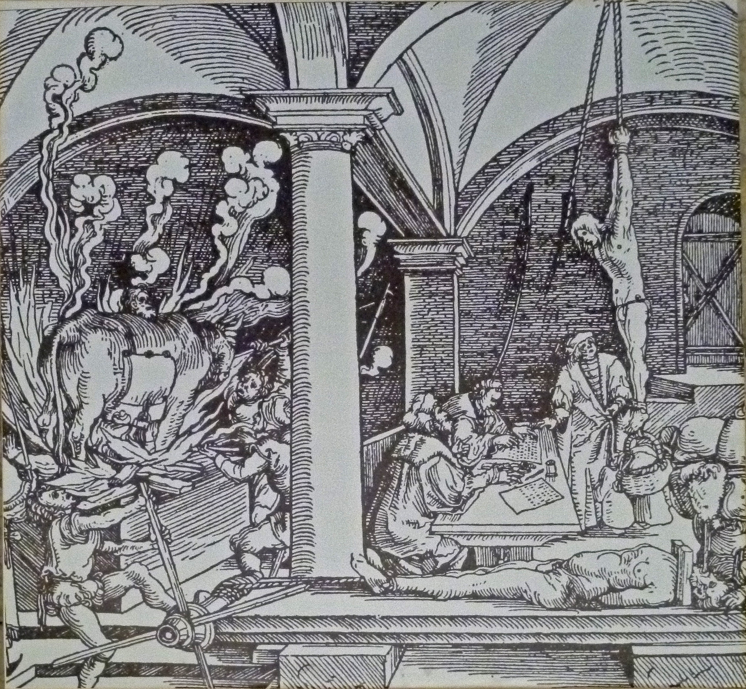 Engraving showing diverse tortures : the brazen bull, strappado, waterboarding, the rack; Torture chamber of the Spiš Castle, near the town of Spišské Podhradie and the village of Žehra, eastern Slovakia